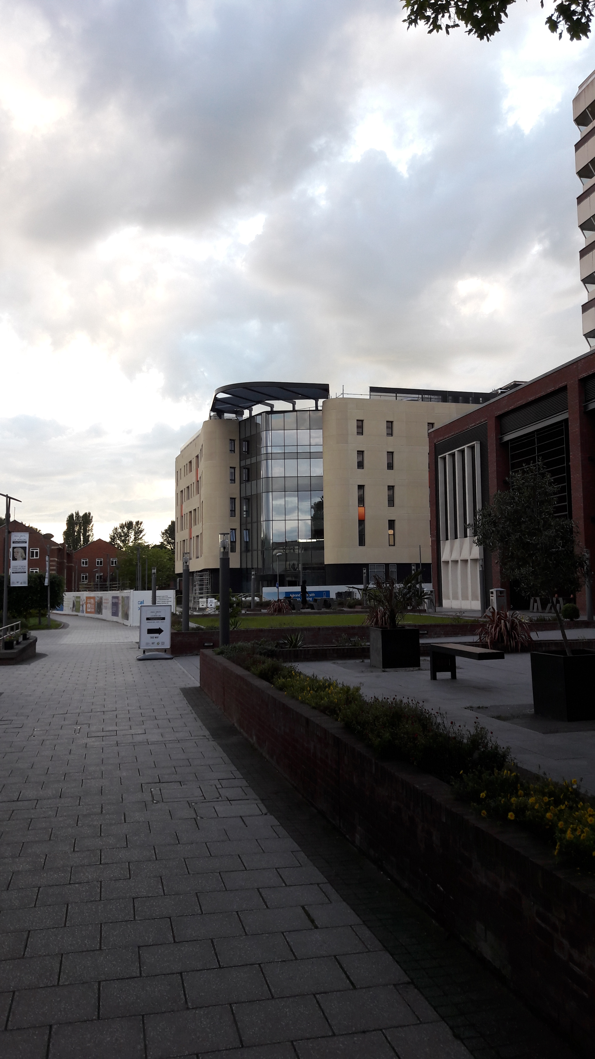 Allam Medical Building, University of Hull